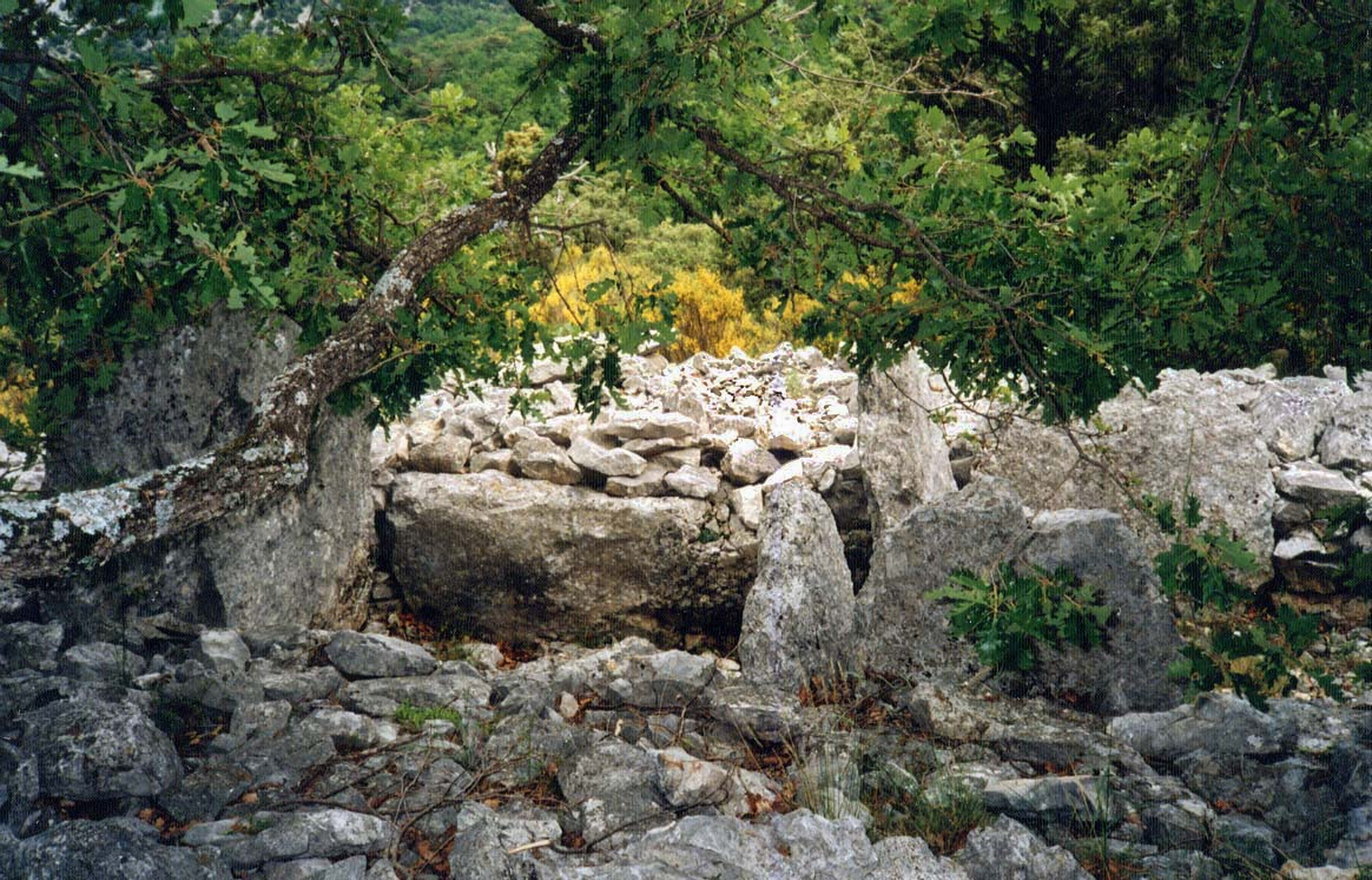 Mons (Var) Brainée's dolmen